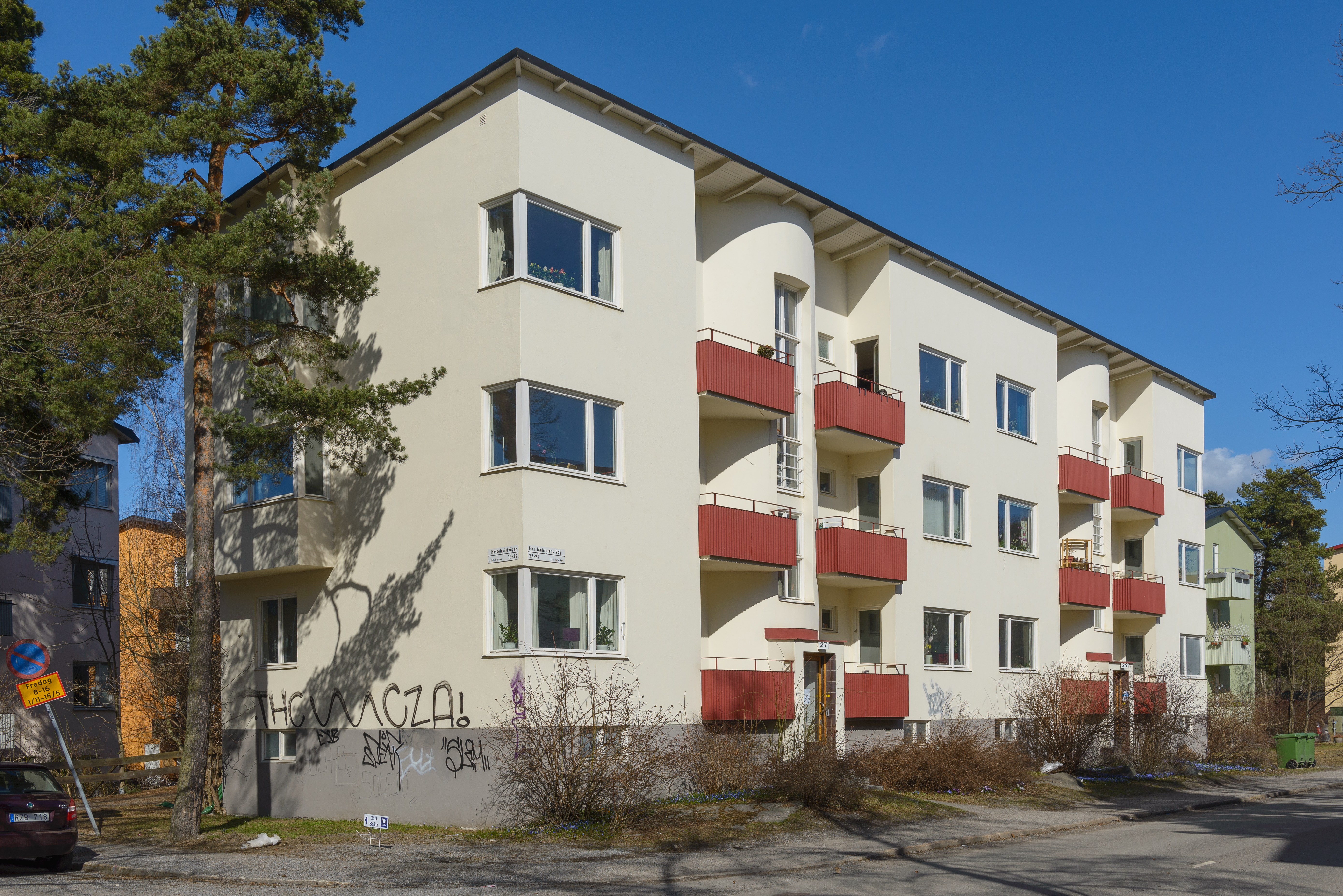 Finn Malmgrens väg 27-29, Hammarbyhöjden, Stockholm. Architect: Ture Sellman. Built 1939.